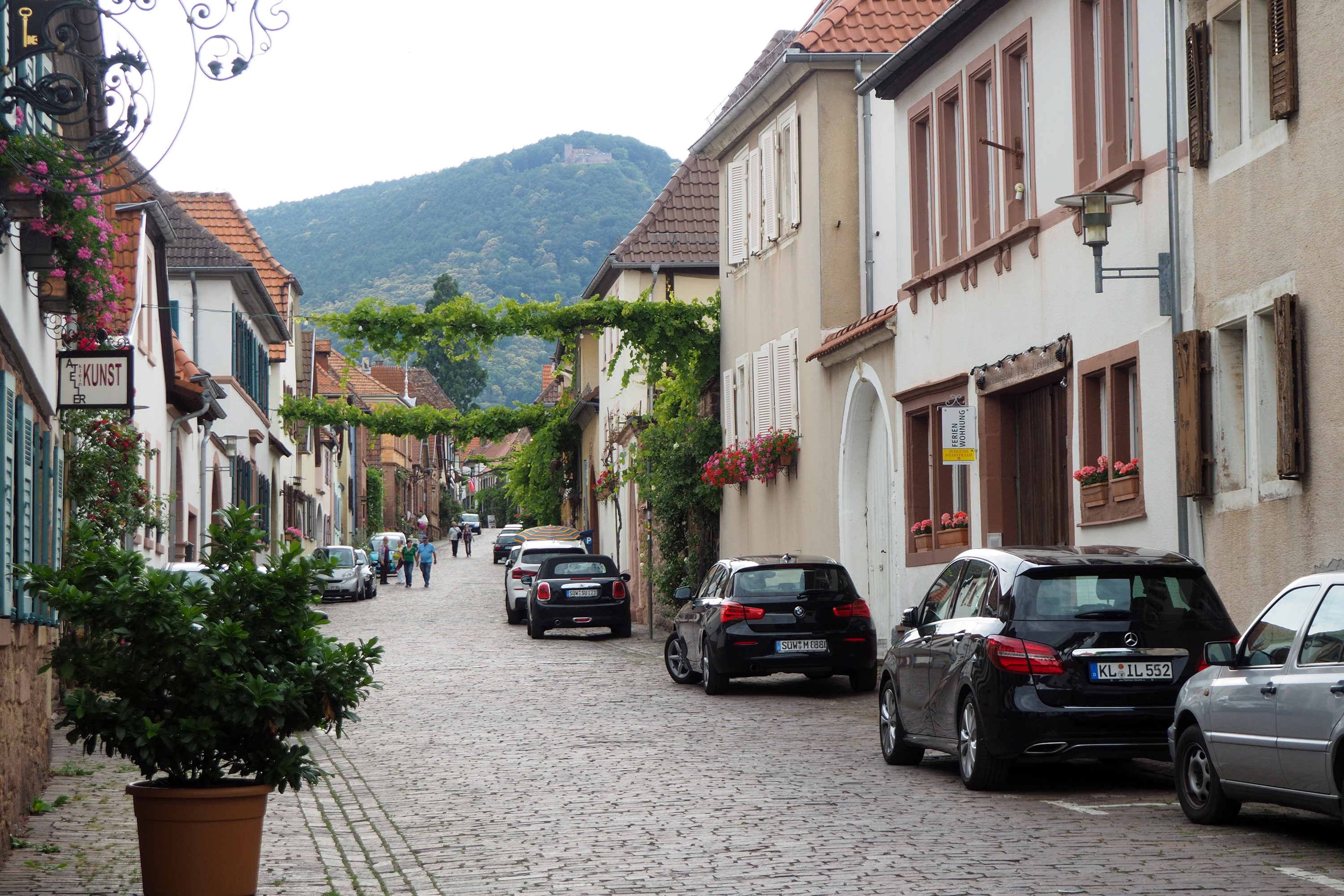 Rhodt unter Rietburg